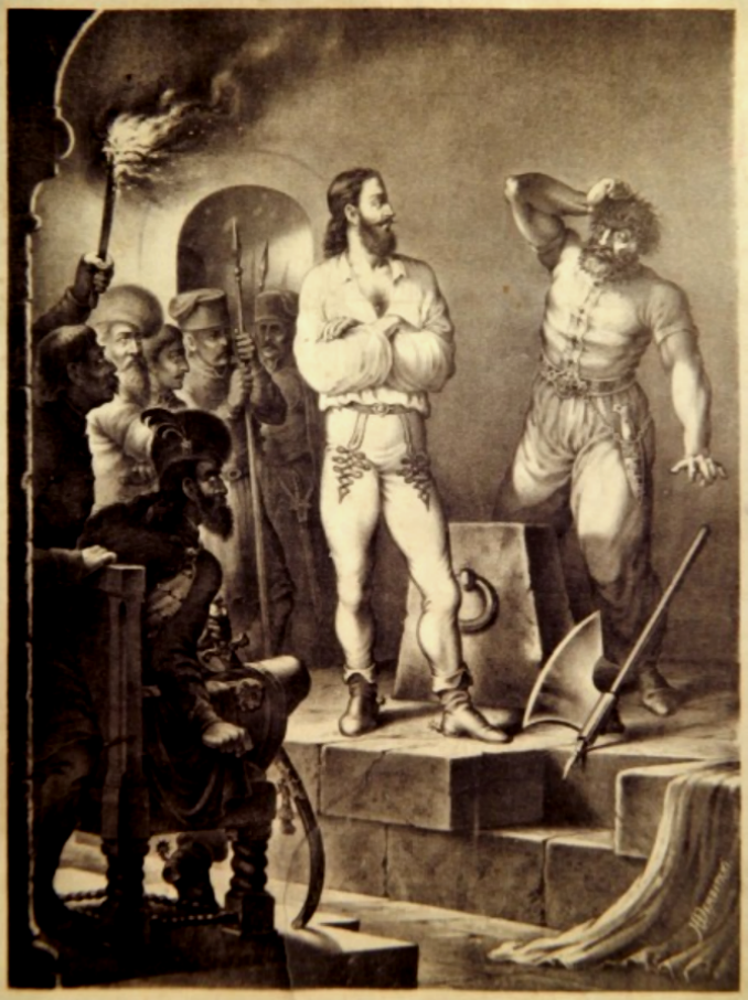 Michael the Brave and His Executioner, popular print reconstructing an older Oltenian legend, purporting to relay events from 1593. Michael the Great, at the time Ban of Oltenia, stares down his executioner, preventing the latter from carrying out the command. In the foreground is Alexander the Wicked, whom Michael replaced as Prince of Wallachia later that year.